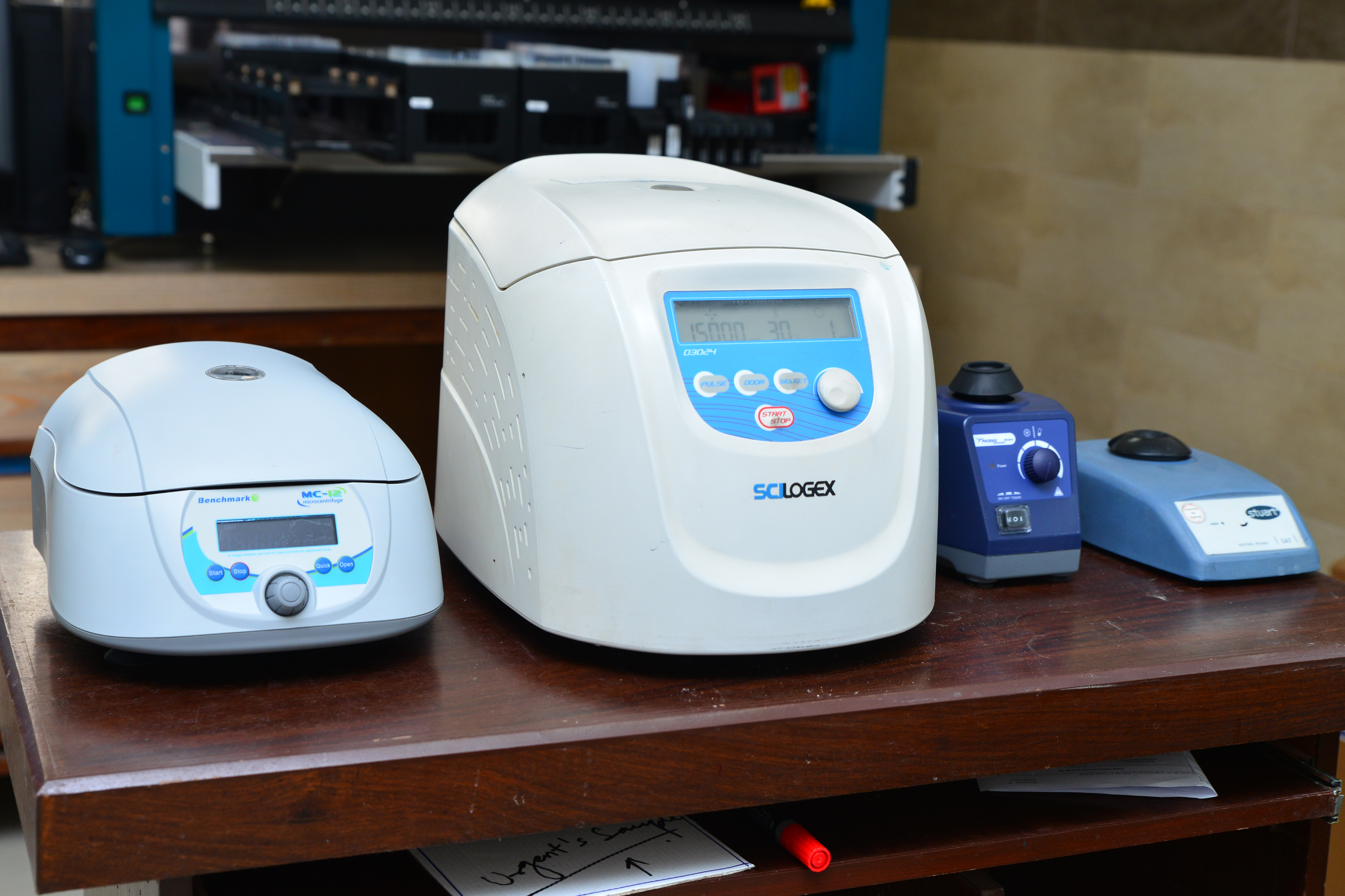 Assistance to Pakistan for diagnostics of COVID-19 COVID-19 Equipment donated by the IAEA at the General Hospital, of the Pakistan Atomic Energy Commission (PAEC), Islamabad, Pakistan. 14 July 2020 The International Atomic Energy Agency (IAEA) is dispatching equipment to countries around the world to enable them to use a nuclear-derived technique to rapidly detect the coronavirus that causes COVID-19. This emergency assistance is part of the IAEA's response to requests for support from Member States in controlling an increasing number of infections worldwide. Photo Credit: Abdul Majeed, General Hospital and Imtiaz Ahmad, National Liaison Officer